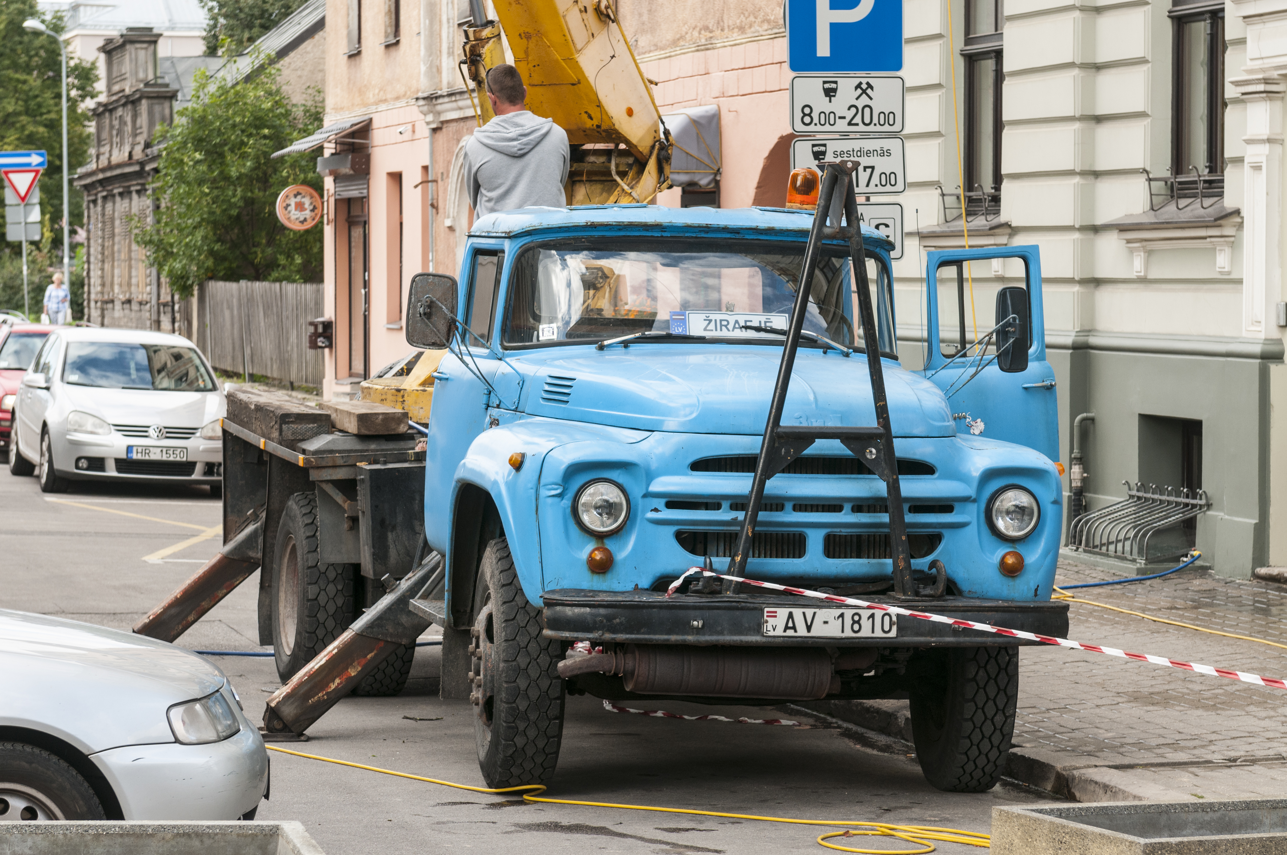 Moskauer Vorort in Riga, Lettland